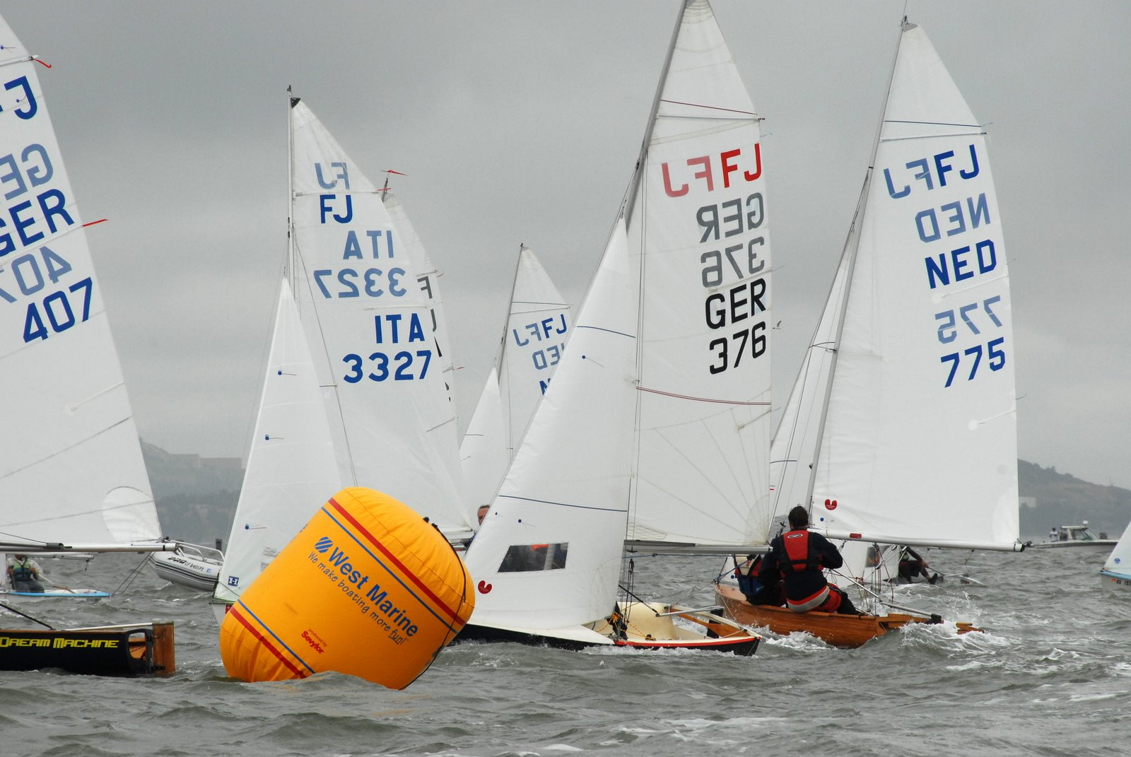 International FJ Class (Flying Junior) starting at the Worlds 2007 in San Francisco Bay